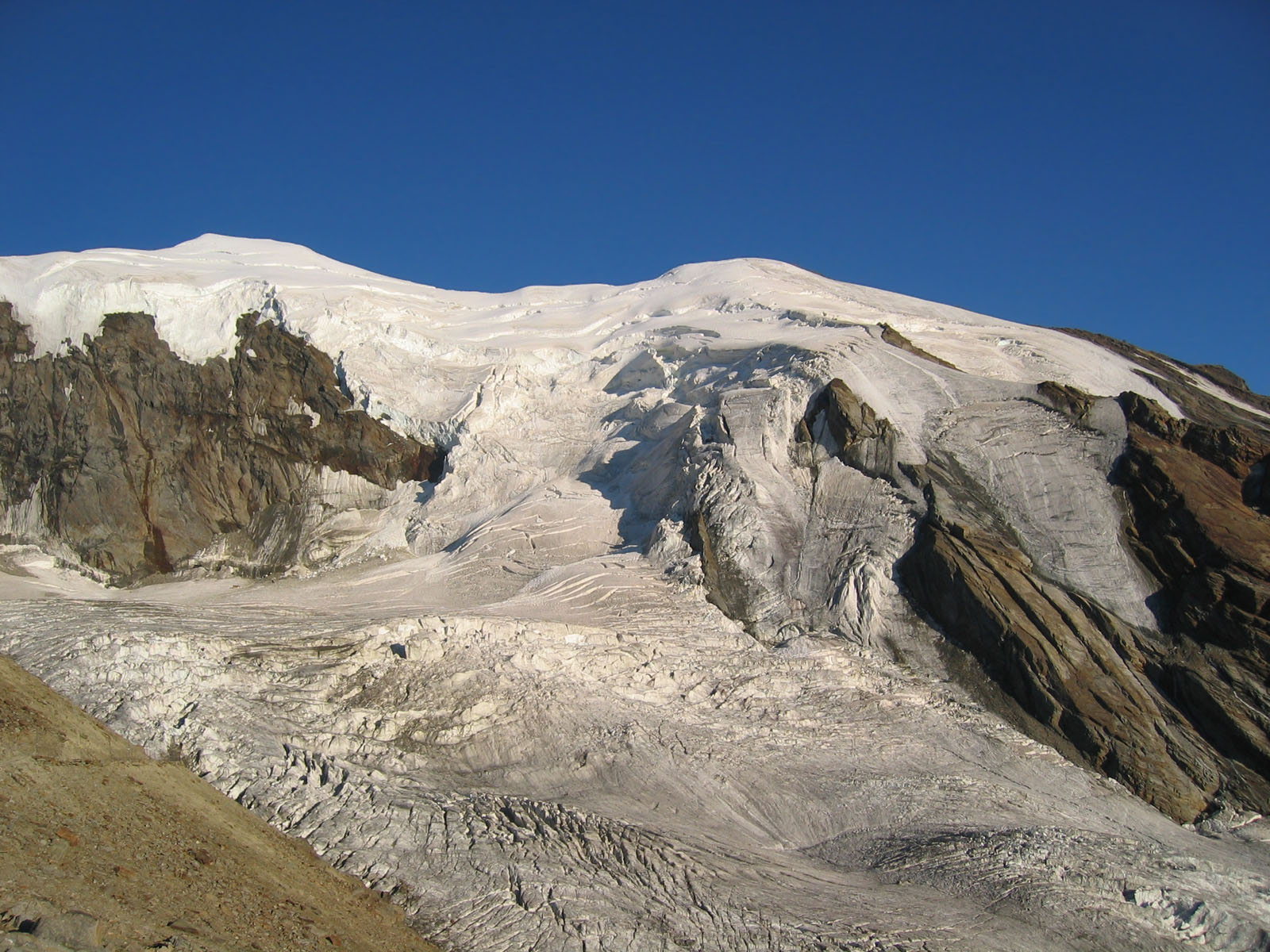 View of the Trift-Gletscher and Weissmies summit from Hohsaas (Wallis, Switzerland).